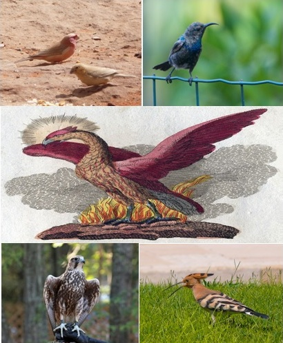 Levant's Birds:Upupa epops, Palestine Sunbird standing on a fence, Phoenix-Fabelwesen, Saker falcon and Carpodacus synoicus.